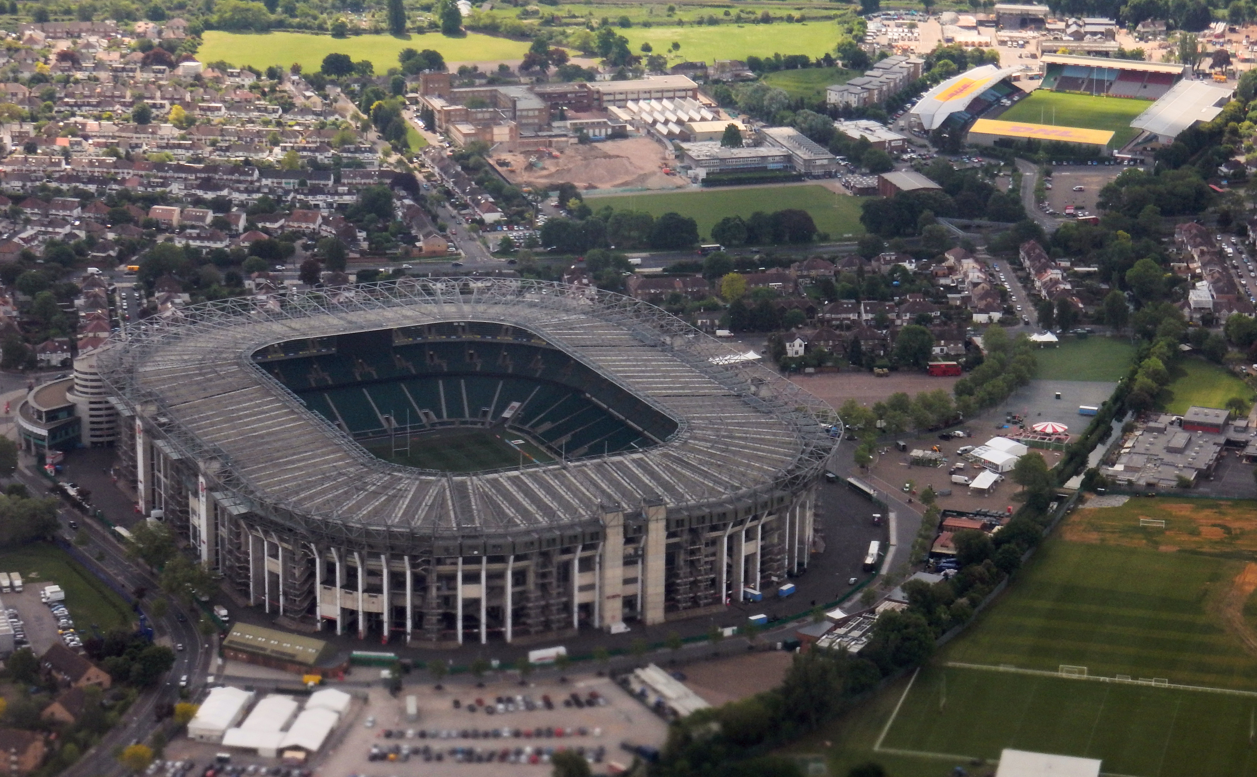 Aerial view of Twickenham Stadium and Twickenham Stoop